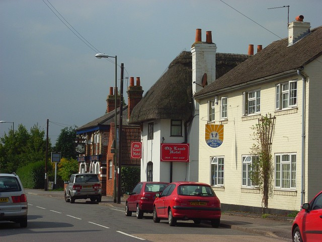 Church Street, Theale To the west of the church as the road leaves the village centre to the west, it passes a nursery, the thatched Old Swan Hotel and the red-brick [new] Swan.